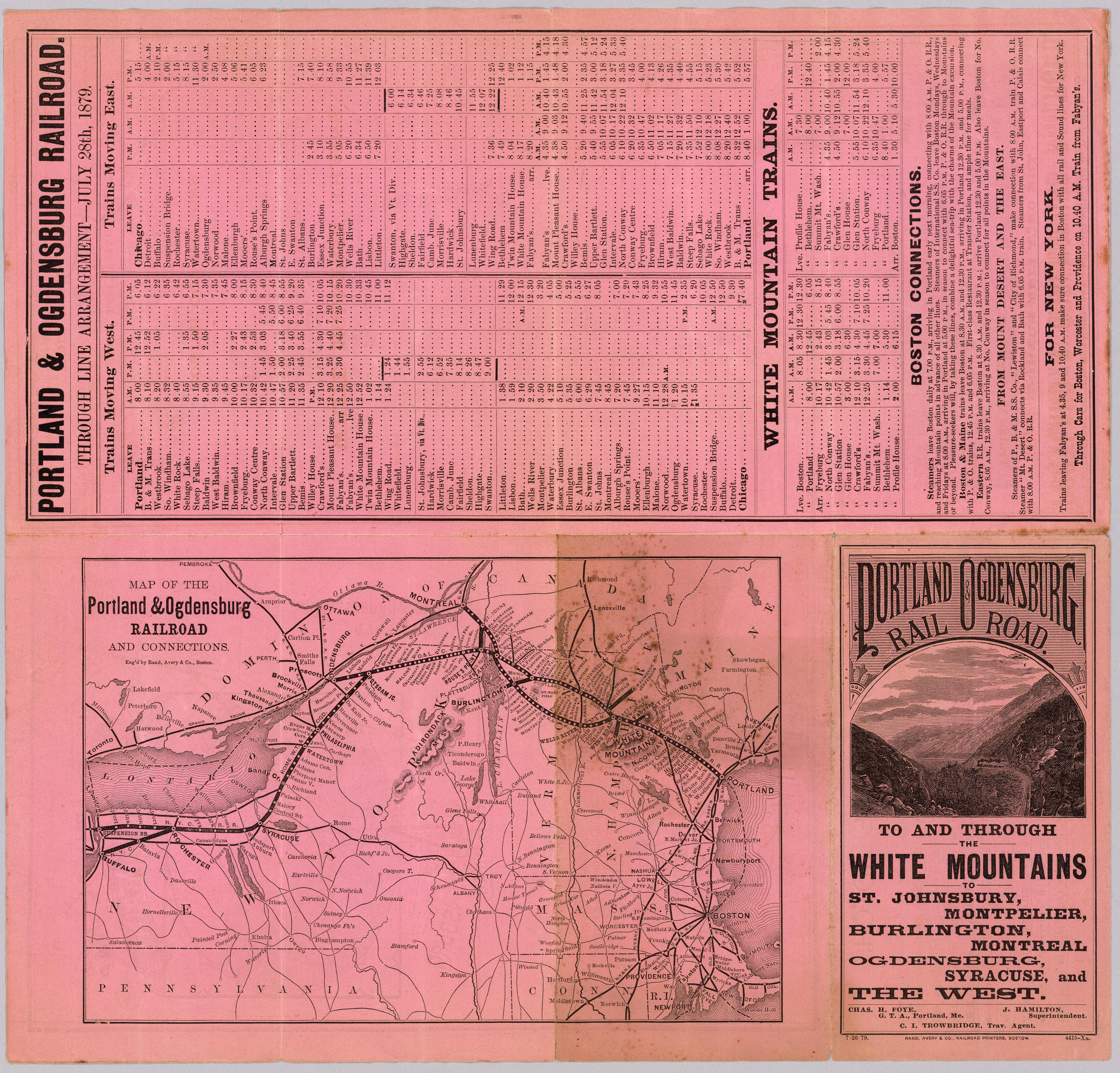 1879 map and timetable of the Portland and Ogdensburg Rail Road